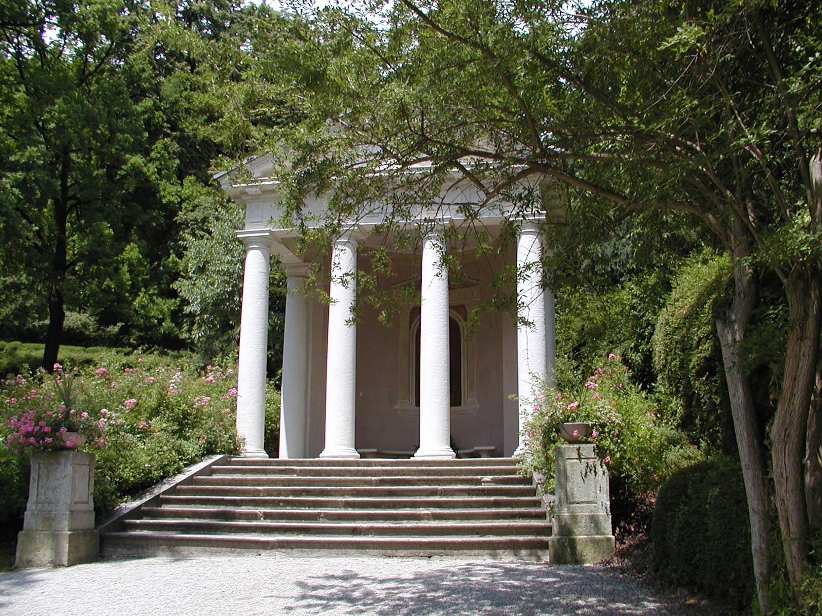 Mozart temple in the spa's municipal park, Baden, Lower Austria